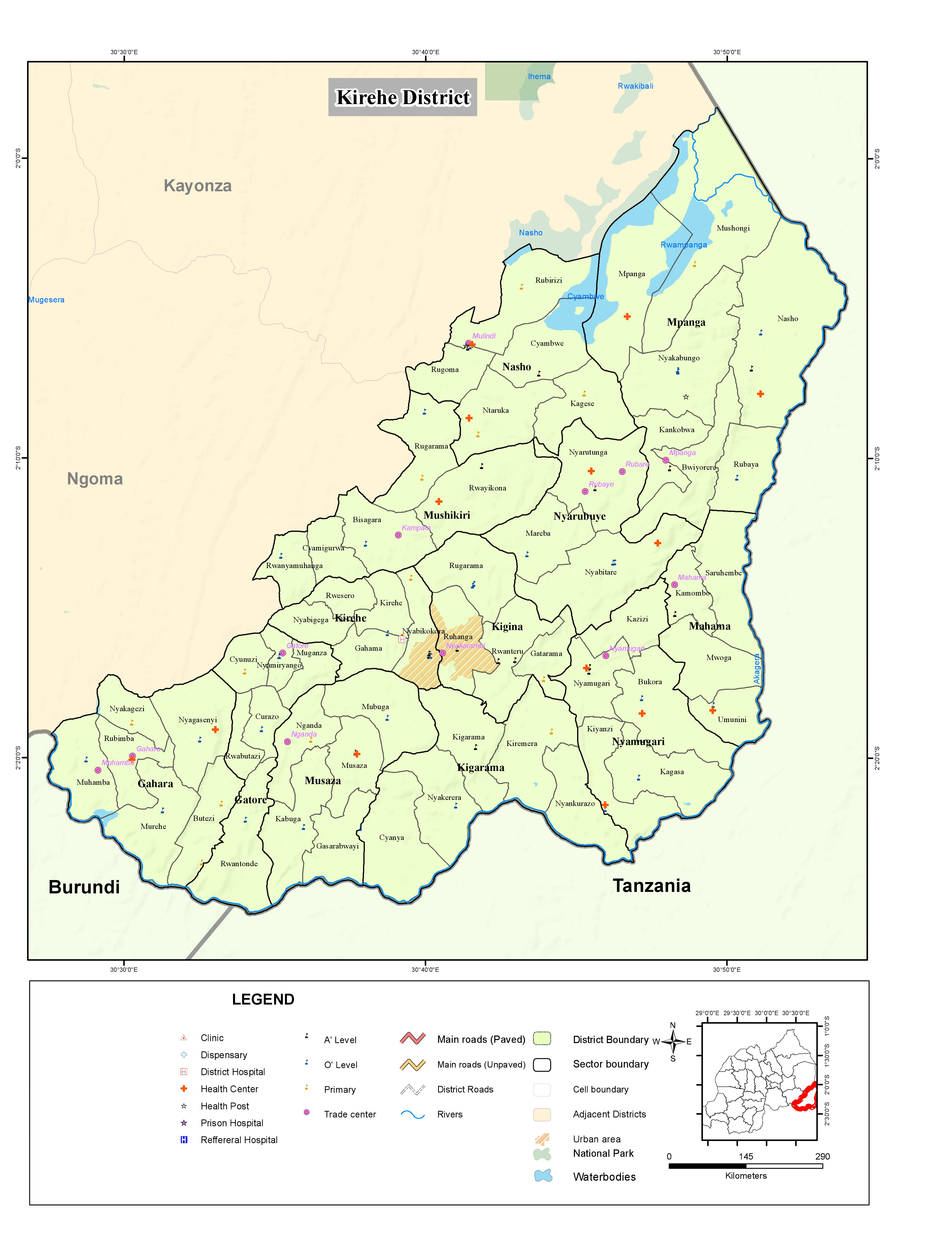 Map of Kirehe district Rwanda